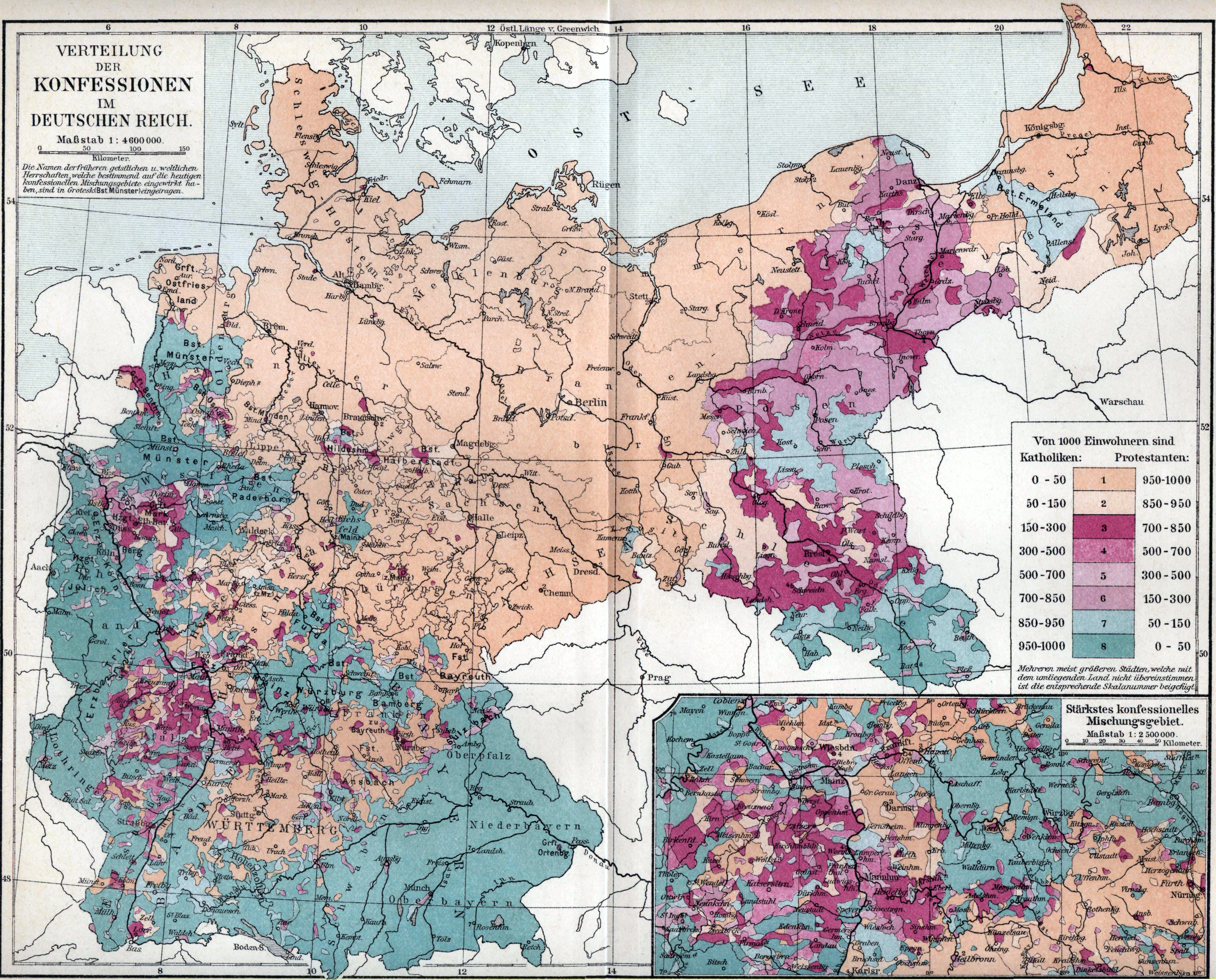 Map showing distribution of Catholics and Protestants in the German Reich as of the 1890s. For a full discussion of this map, including detailed statistics, from the original source (and written in German), see the talk page.